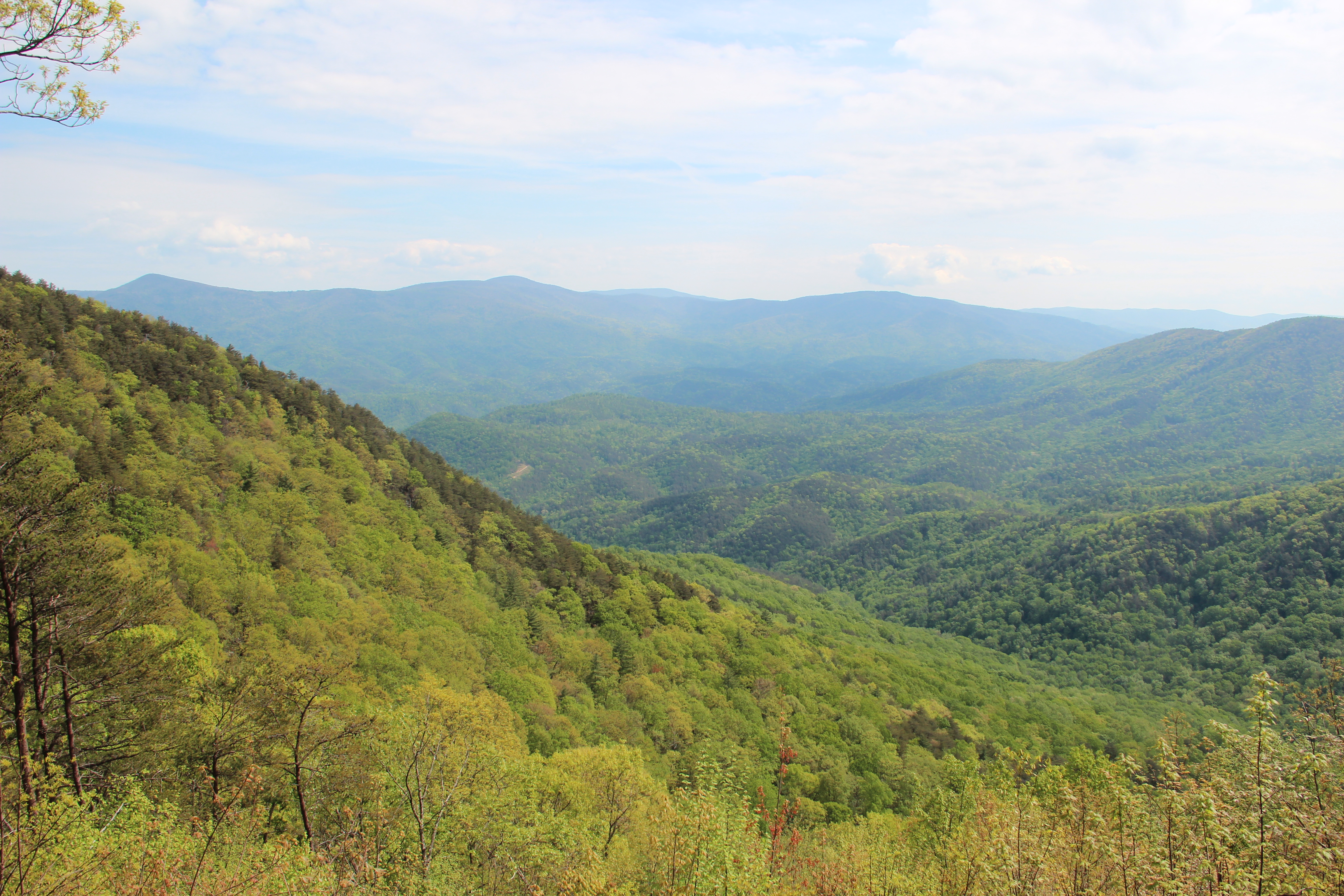 Cool Springs Overlook, Fort Mountain State Park